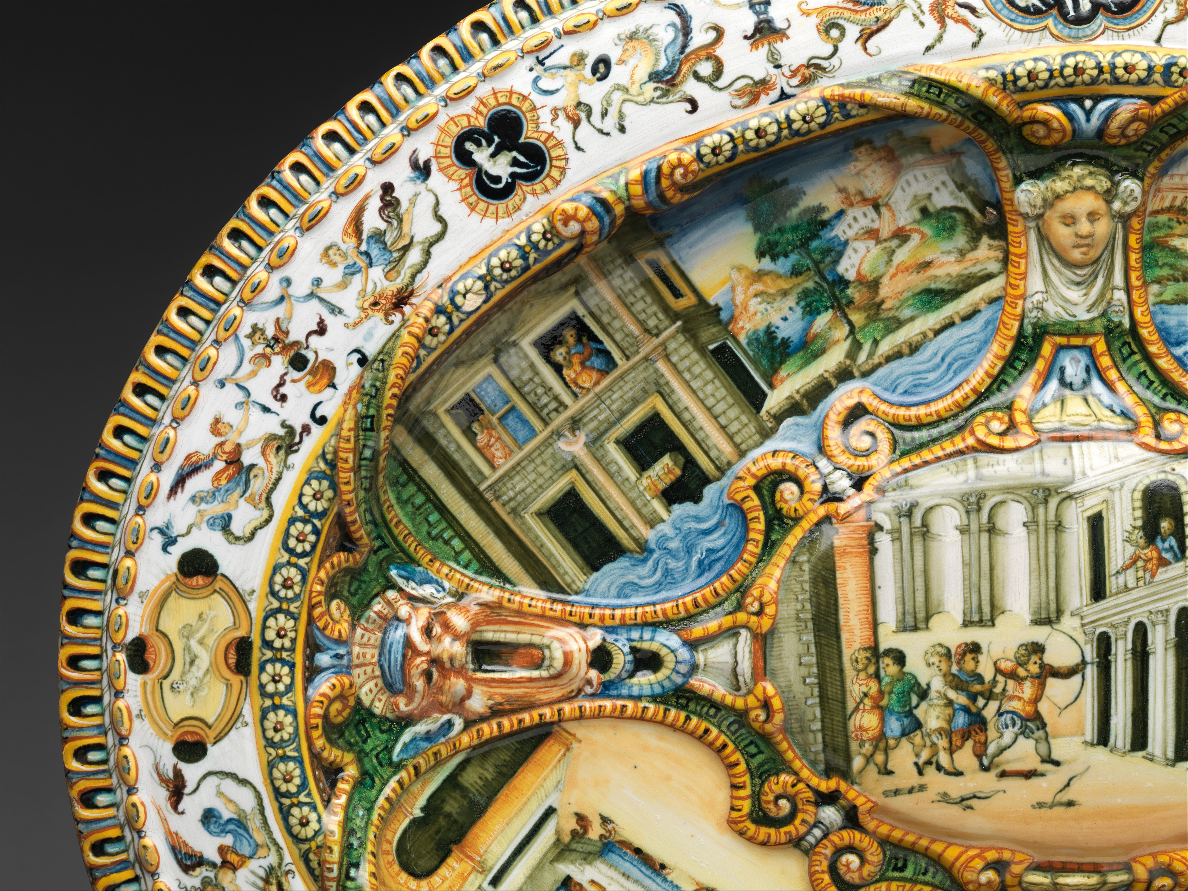 Italian, Urbino or possibly Turin; Basin or dish; Ceramics-Pottery